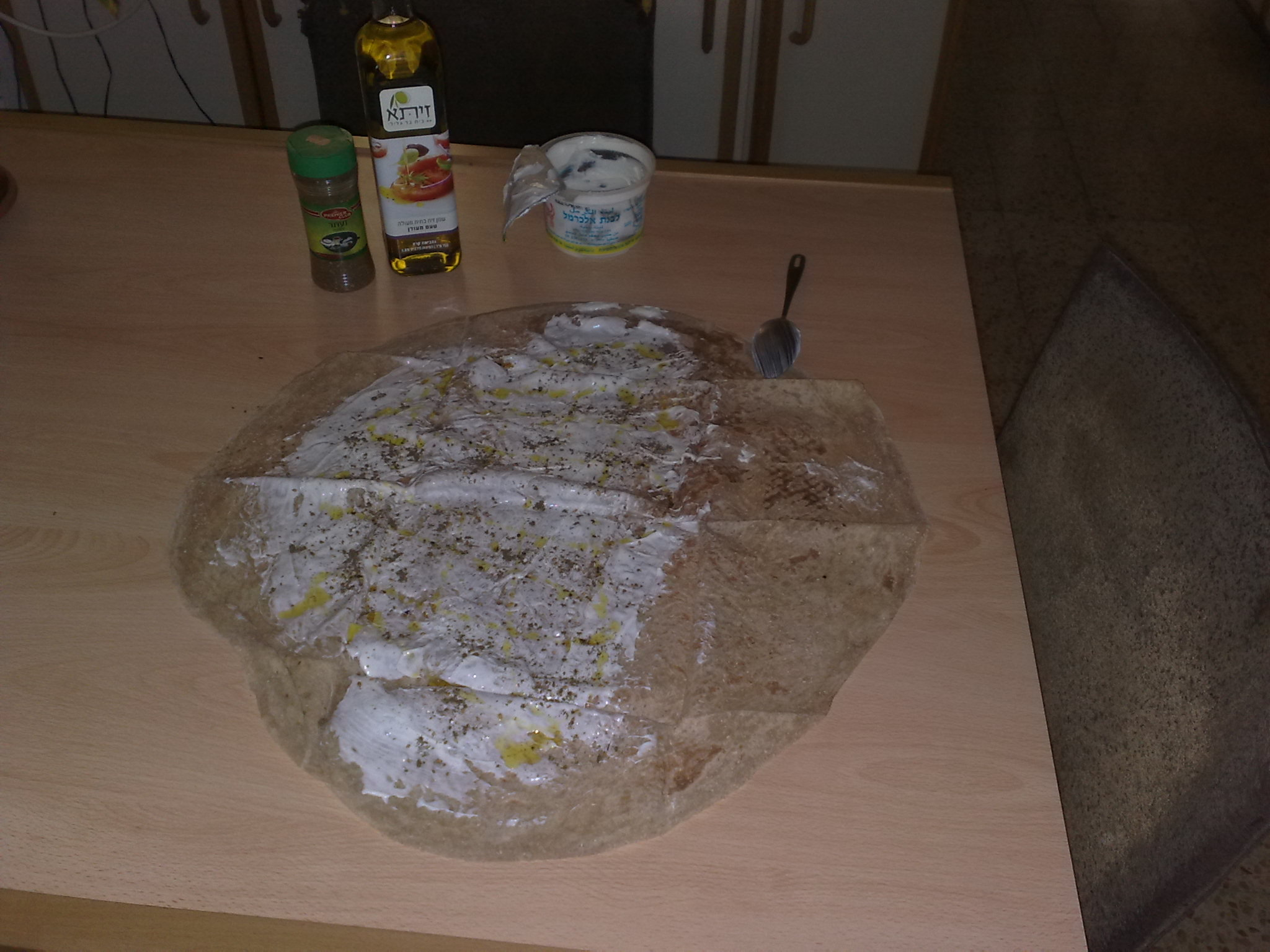 A national food of the Druze ethnos — Druze pita with labaneh, olive oil and za'atar. Home-made. Pita and labaneh were made in the Druze village Isfiya, near Haifa, Israel.